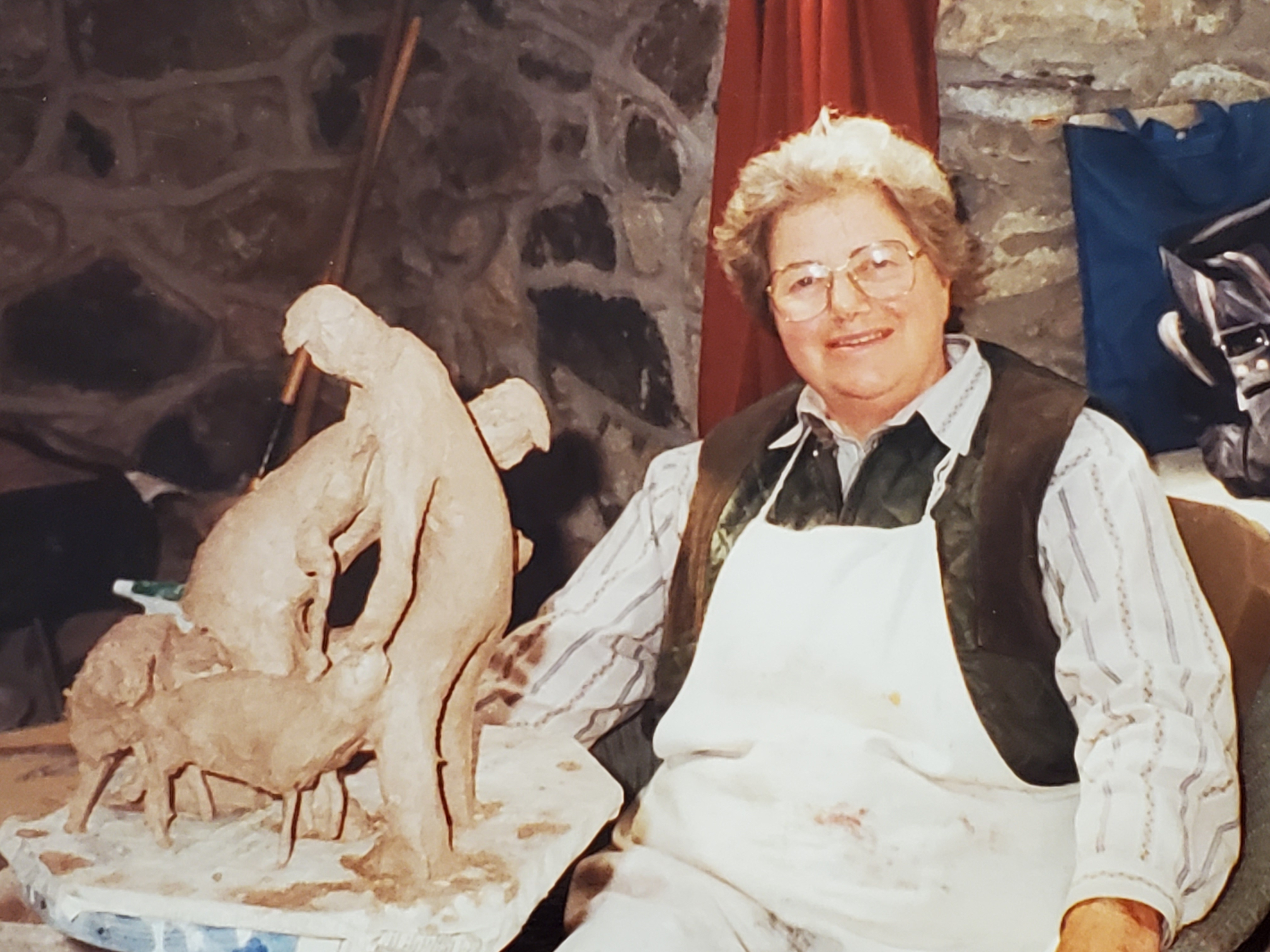 Myfanwy Kitchin working on a ceramic sculpture in her studio near Dolgellau